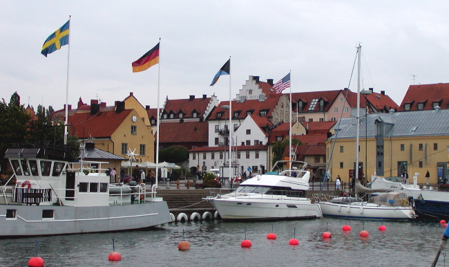 Photo of Visby, Sweden waterfront